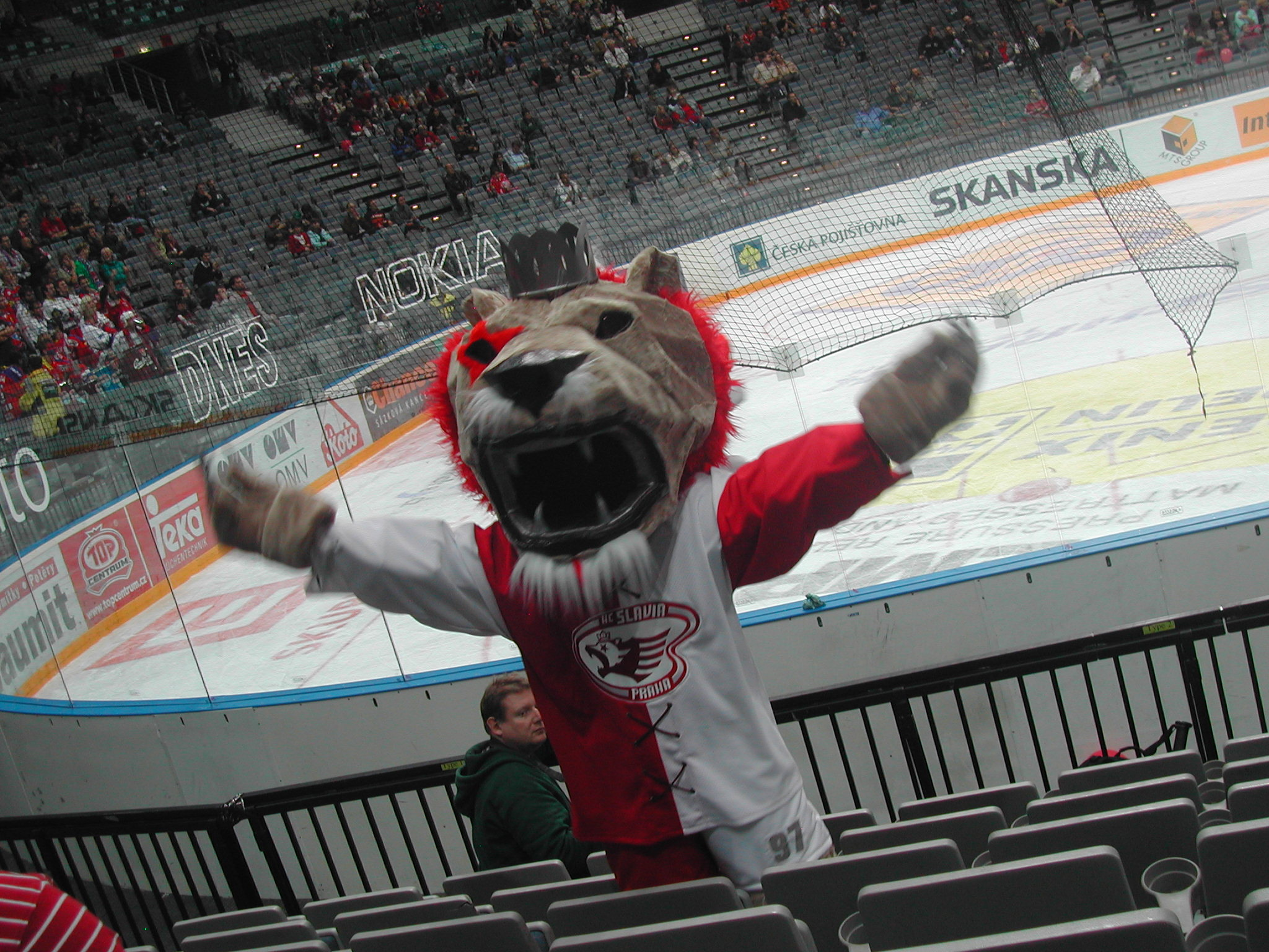 Mascott of the Slavia Praha during a game vs. HC České Budějovice